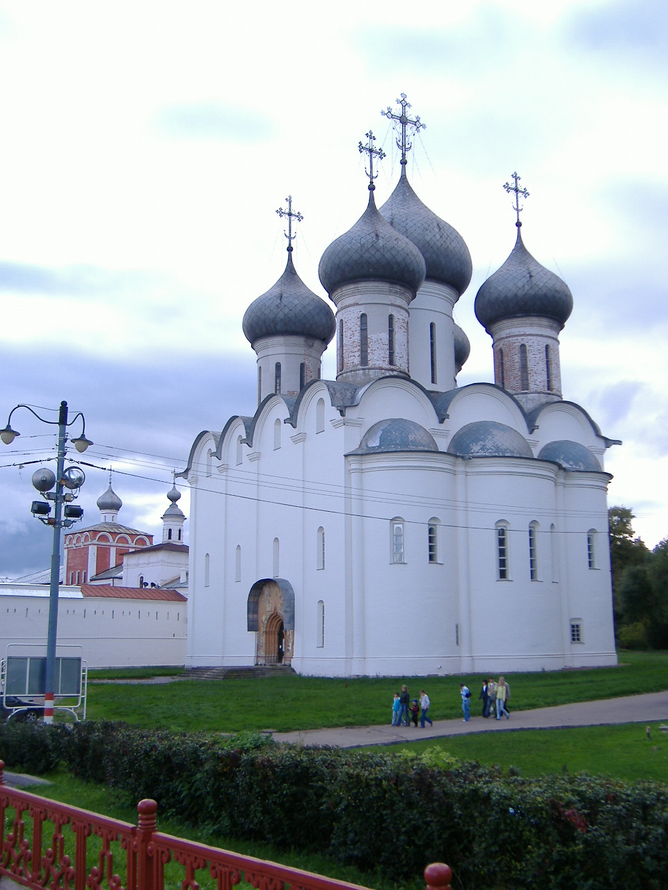 Sophienkathedrale in Wologda